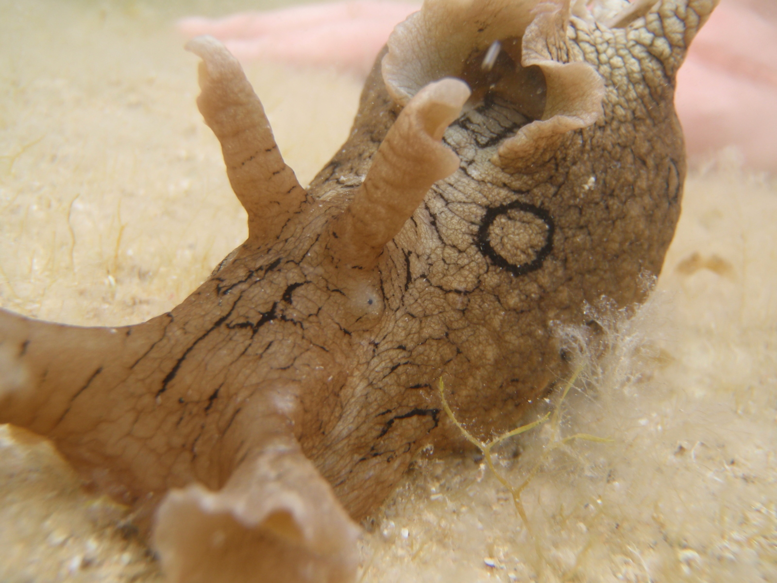 A front view of a 'spotted sea hare'